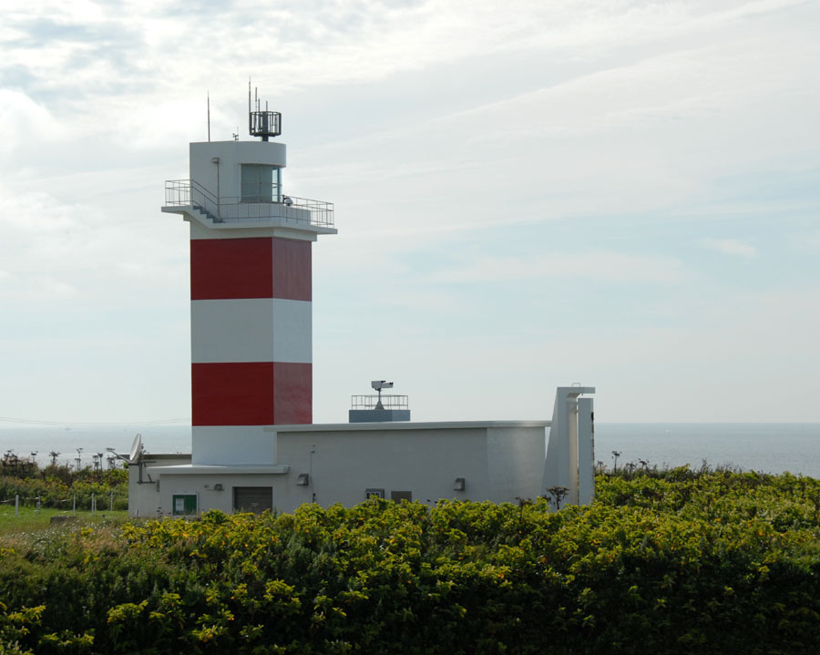 宗谷岬燈塔是日本境內最北方的一座燈塔 Cape Soya light tower is the most northern light tower of Japan